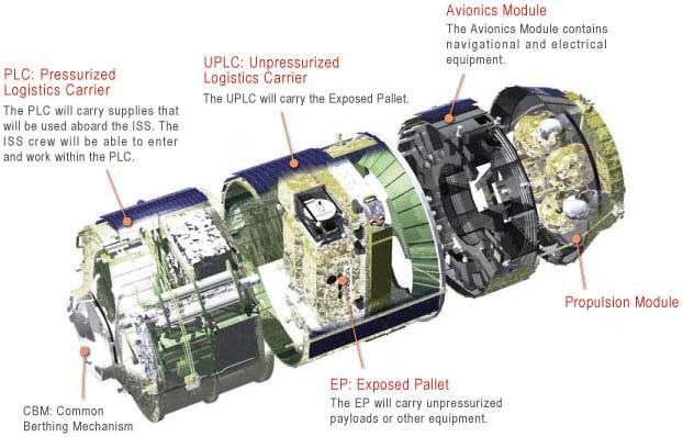 HTV Specifications HTV is four meters across and about 10 meters long, same size as a sightseeing bus. It consists primarily of three parts: (1) A propulsion module installed at the rear and composed of main engines for orbit change, Reaction Control System (RCS) thrusters for position and attitude control, fuel and oxidizing reagent tanks, and highpressure air tanks; (2) An avionics module installed in the center part, with electronic equipment for guidance control, power supply, and telecommunications data processing; and (3) A logistics carrier that stores supplies.